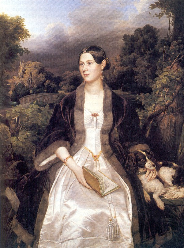 Princess Marie von Preußen in romantic garden scenery